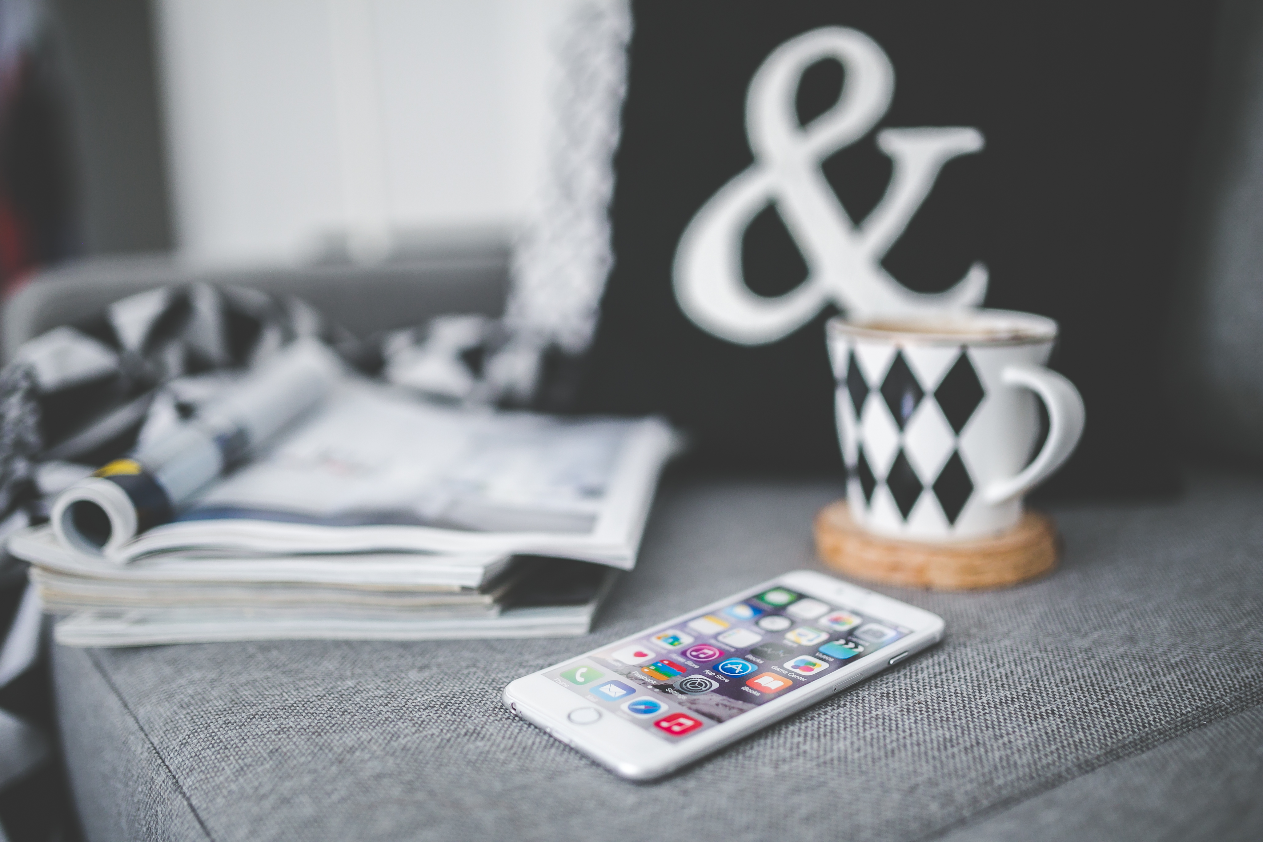 iPhone 6 with coffee cup